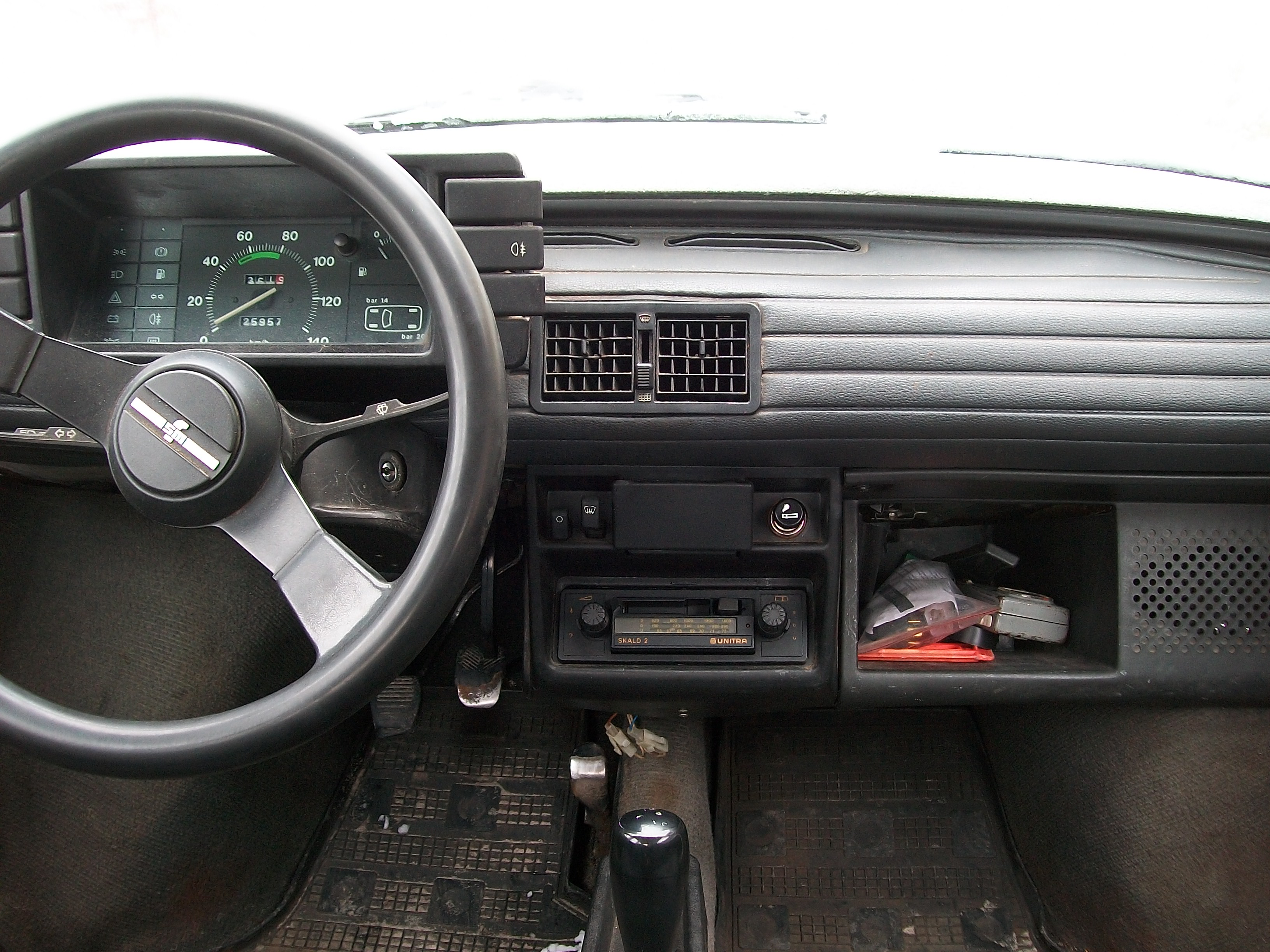 fiat 126p cockpit